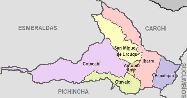 Cantons of Imbabura